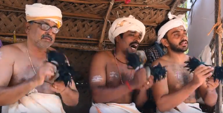 BHADRAKALI THOTTAM PATTU